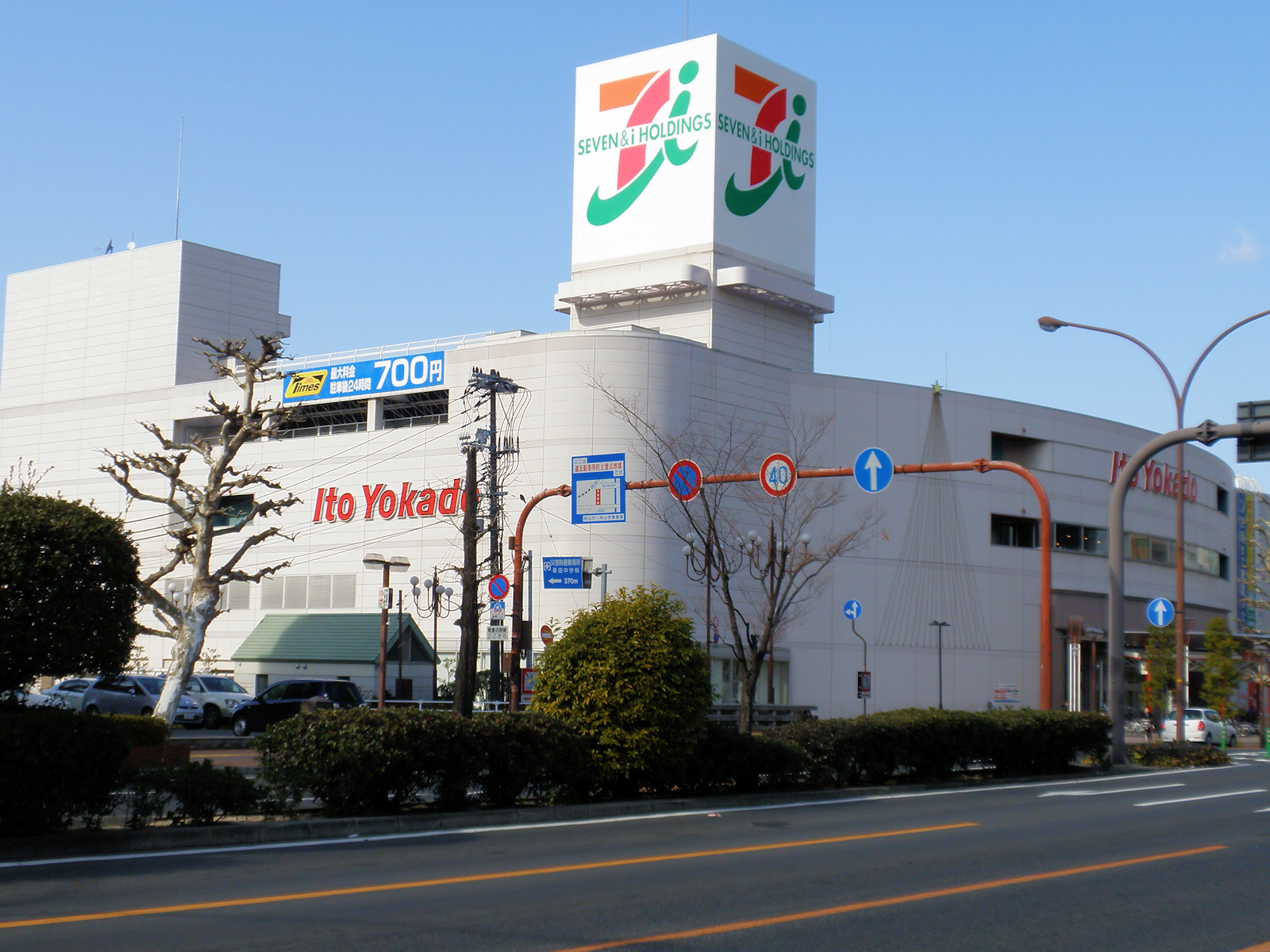 Ito-Yokado Okayama, Kita-ku, Okayama.